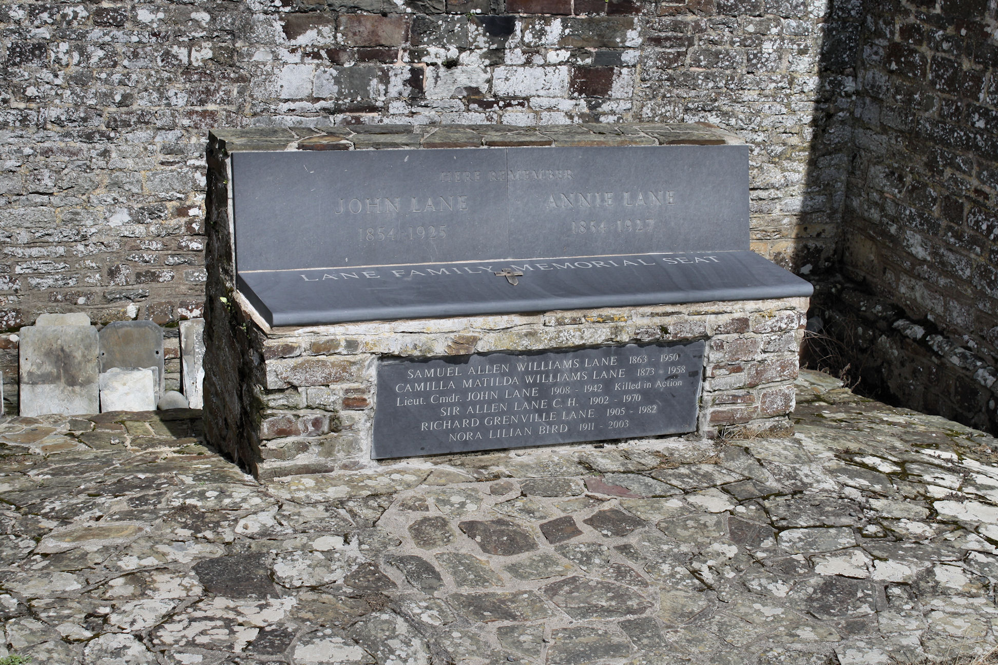 The seat is in the churchyard of St Nectan's, Stoke, near Hartland in Devon. John Lane was a publisher. His nephew, Allen Lane, was the founder of Penguin Books.Bristol Filer (talk) 13:13, 26 September 2011 (UTC)